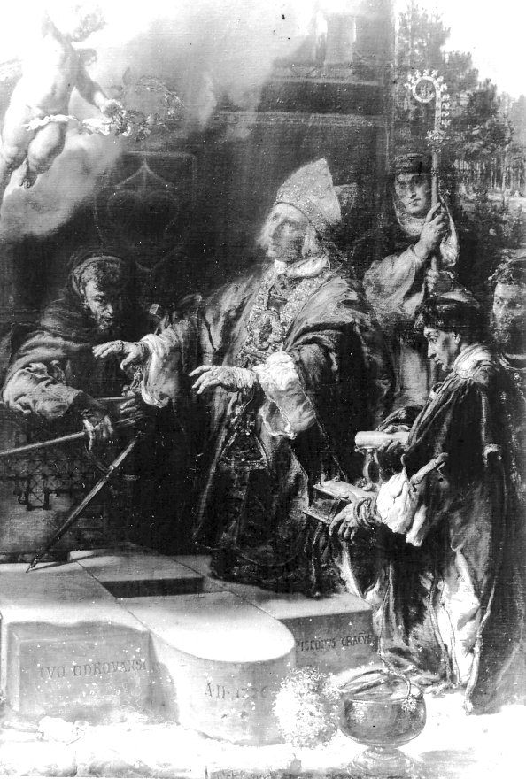 Bishop Iwo Odrowąż devotes foundation stone of the church in iwonicz in 1226